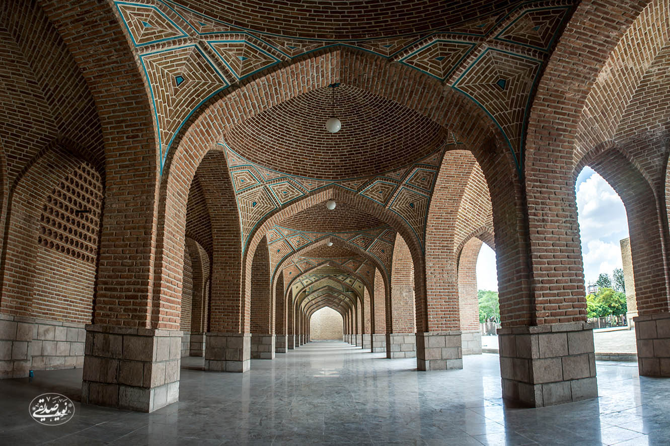 vault corridors of Blue Mosque, Tabriz